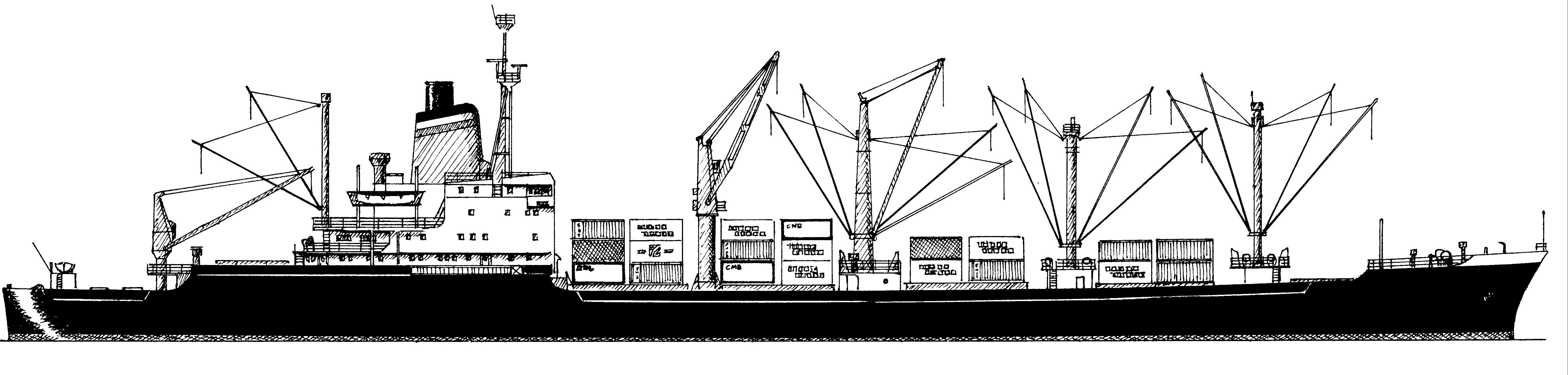 FRIESENSTEIN after re-built to a semi-container vessel